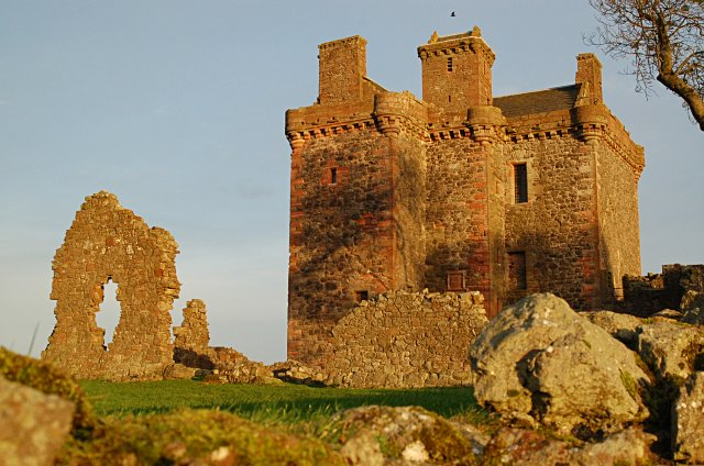 Balvaird Castle South walls of Balvaird Castle in the early morning light.